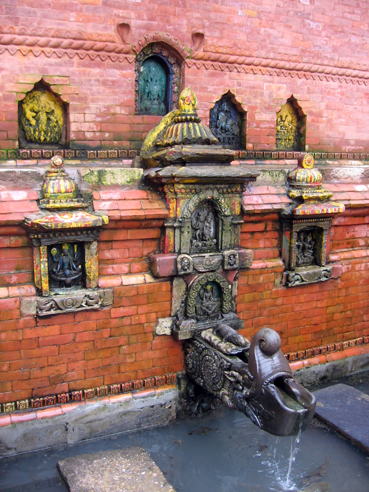 Traditional stone water spout at Maruhiti, Kathmandu carved in the shape of a crocodile head.